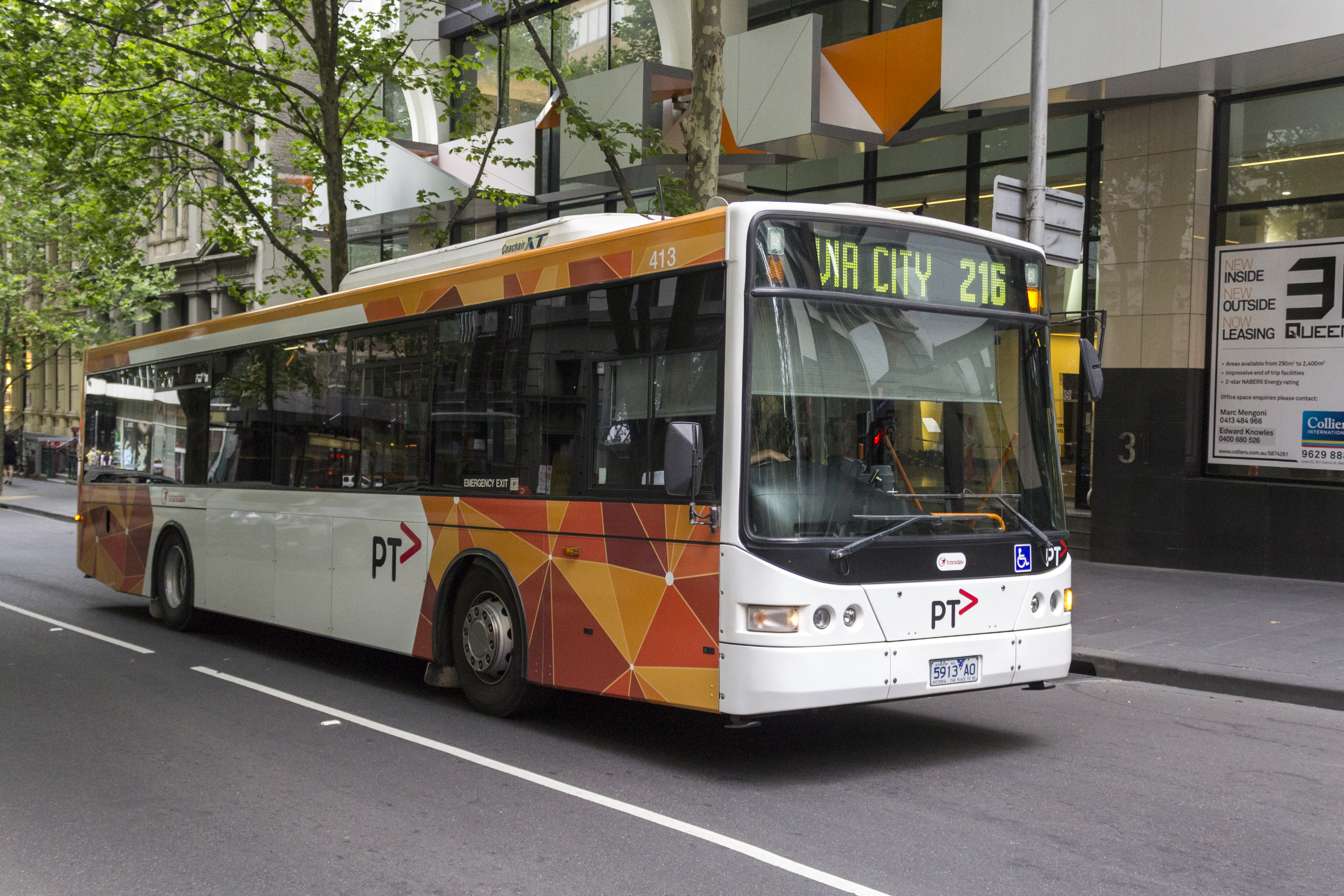 Transdev Melbourne number 413 (5913AO) Volgren "CR228L" bodied Scania K230UB in Public Transport Victoria livery on route 216 in Queen St, December 2013.